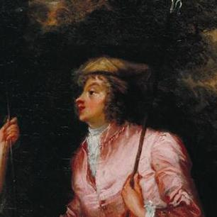 Damon and Phillida Reconciled: A Scene from Colley Cibber's 'Damon and Phillida', oil on canvas, Tate Gallery. Cibber's daughter Charlotte plays the lead male character.